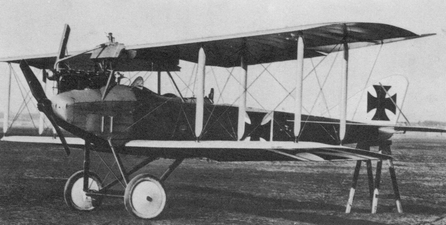 Albatros C.I